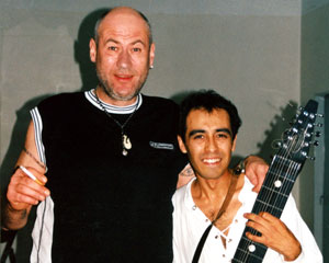 Guillermo Cides